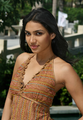 Miss Sri Lanka 2007 Romanthi Maria Colombage in Miss World 07, Sanya, China